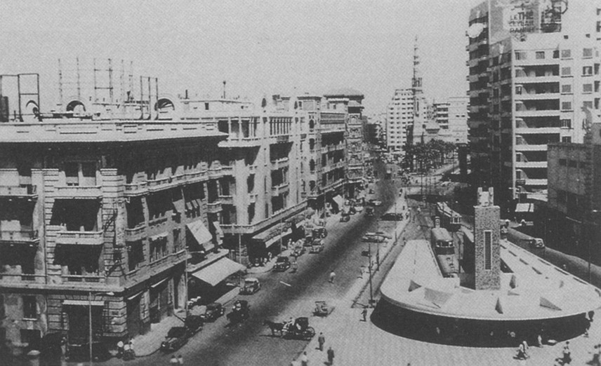 Ramleh Tram Station in Alexandria, Egypt. (1950)